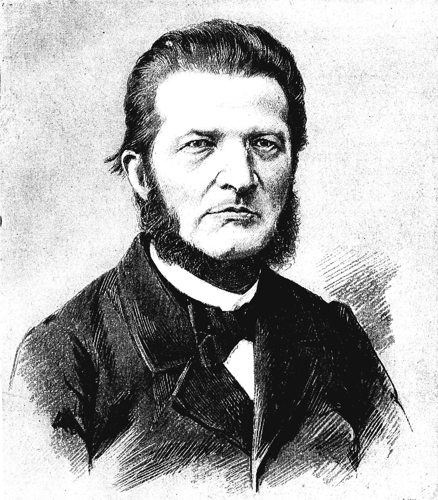 Romuald Pląskowski